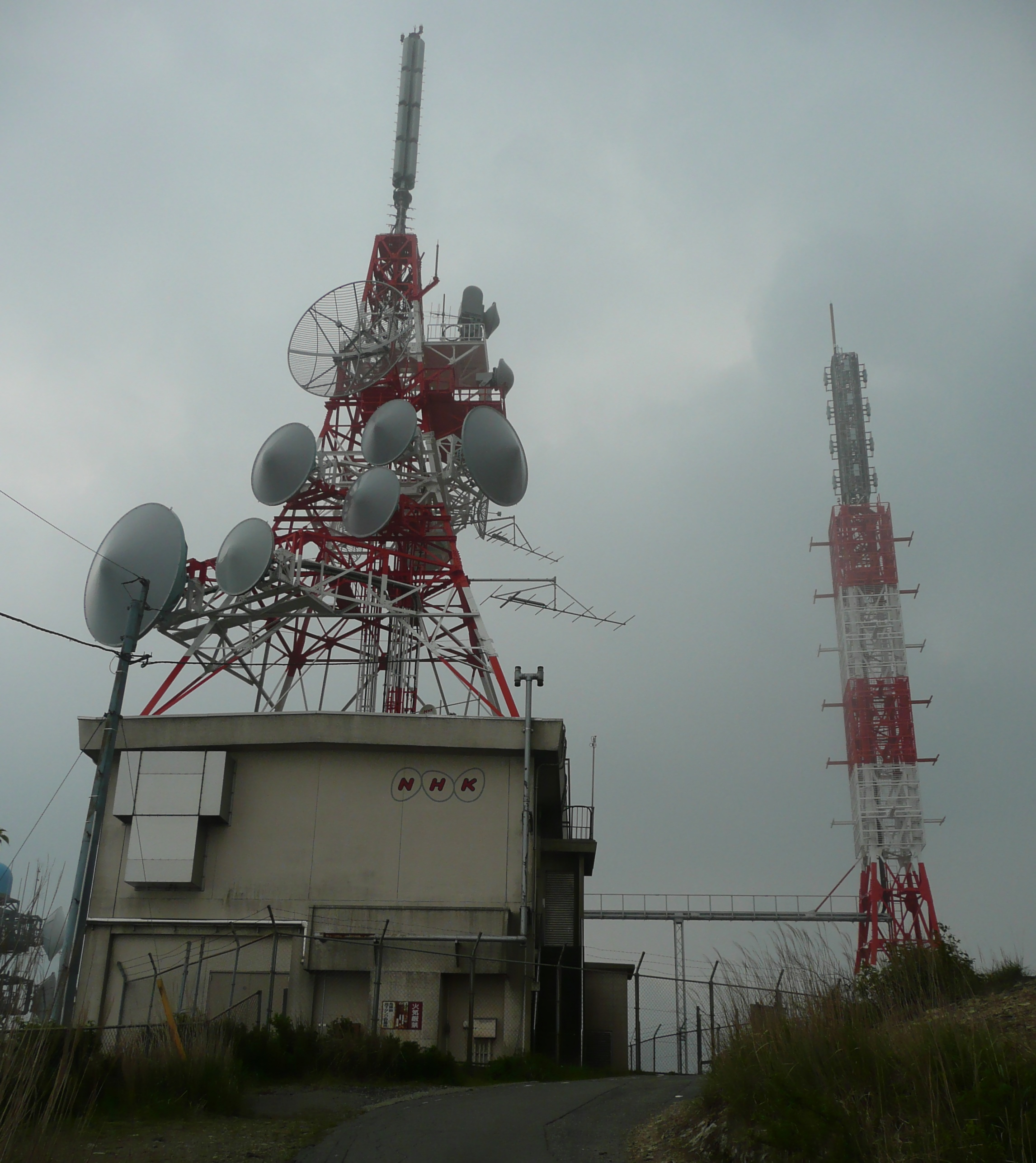 JOMG-TV,JOMC-TV,JOMG-FM Wanitsukayama Transmitting Station (Wanitsukayama, Miyazaki Prefecture ,Japan)